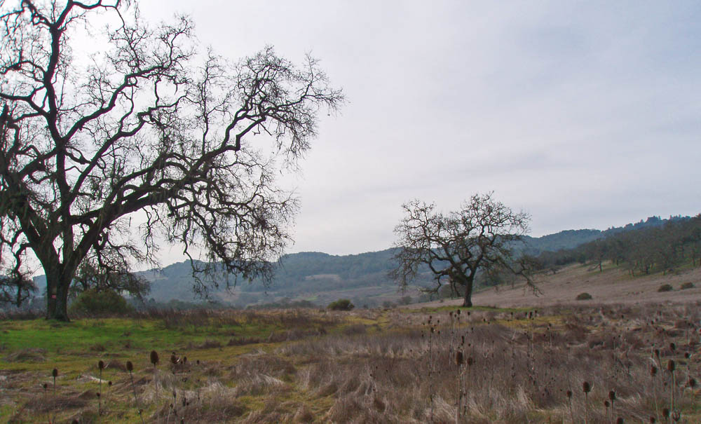 Subject: Bennett Valley looking se (Sonoma co, calif)--trees evident are valley oaks, which have lost their leaves until spring; date: Feb, 2007; photographer: c michael hogan; low res version of photo